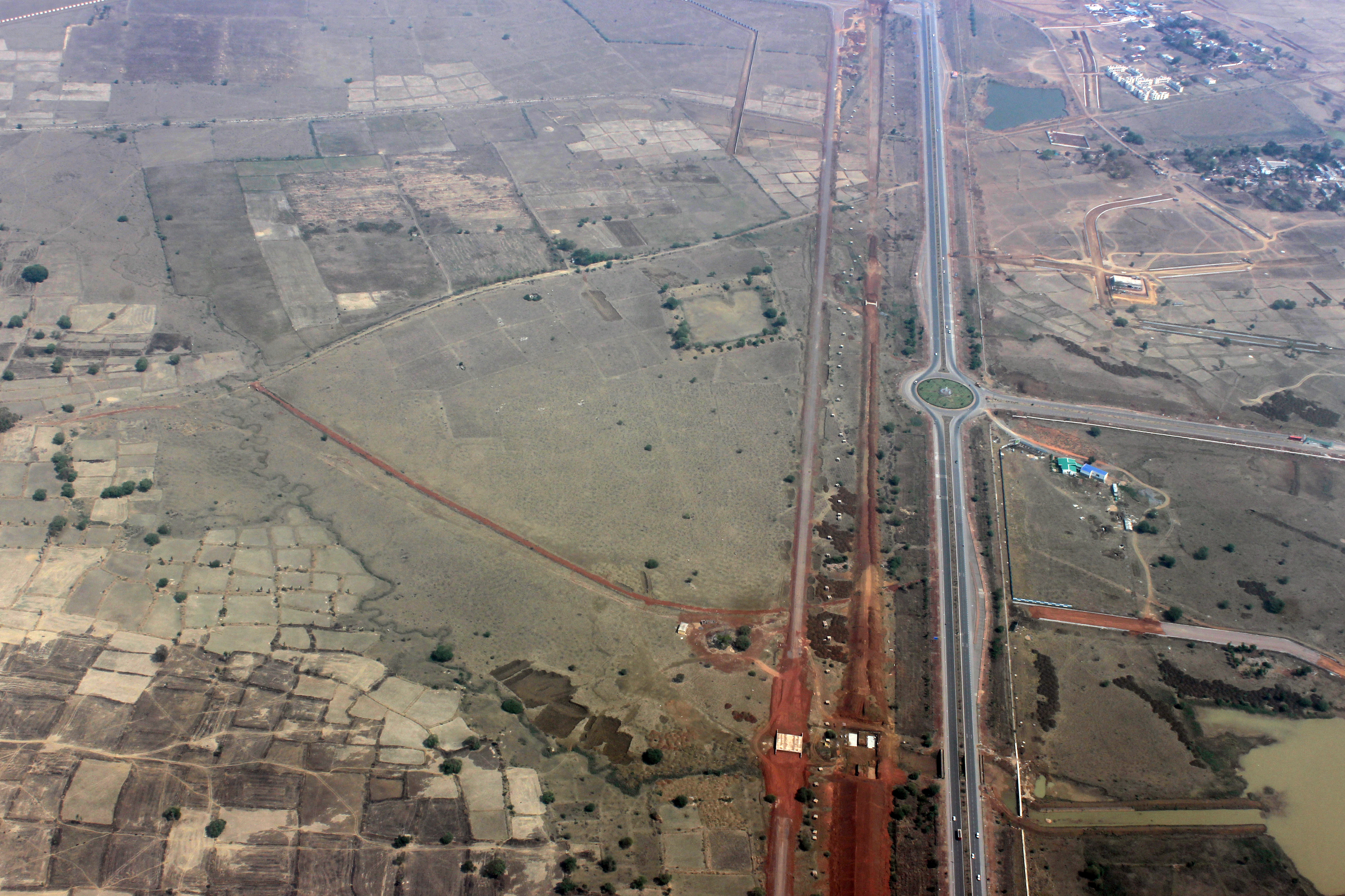 Arial Images of Raipur through Air India Flight AI9865